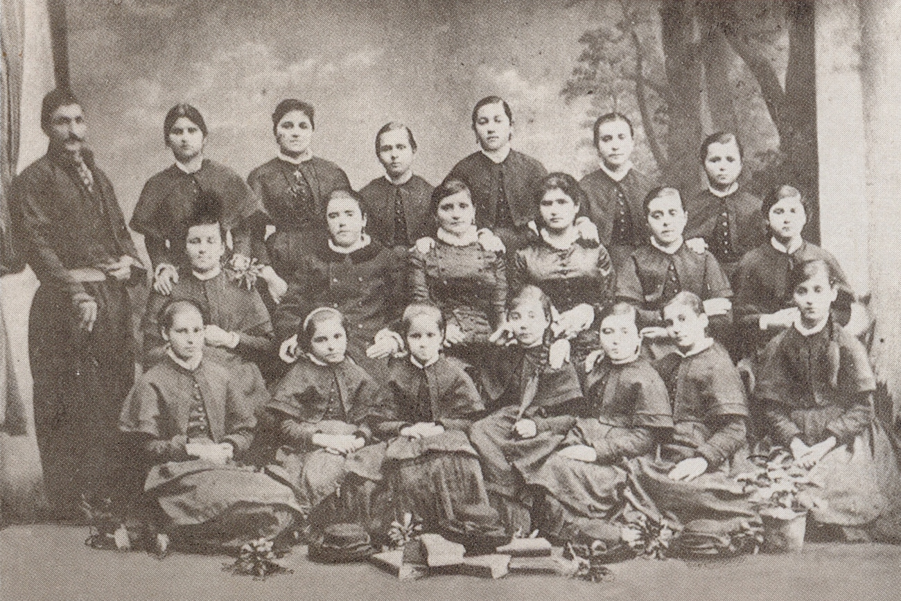 Tsarevna Miladinova, founder of the first boarding house and women school in Thessaloniki in 1882-1883, accompanied by teachers and students.